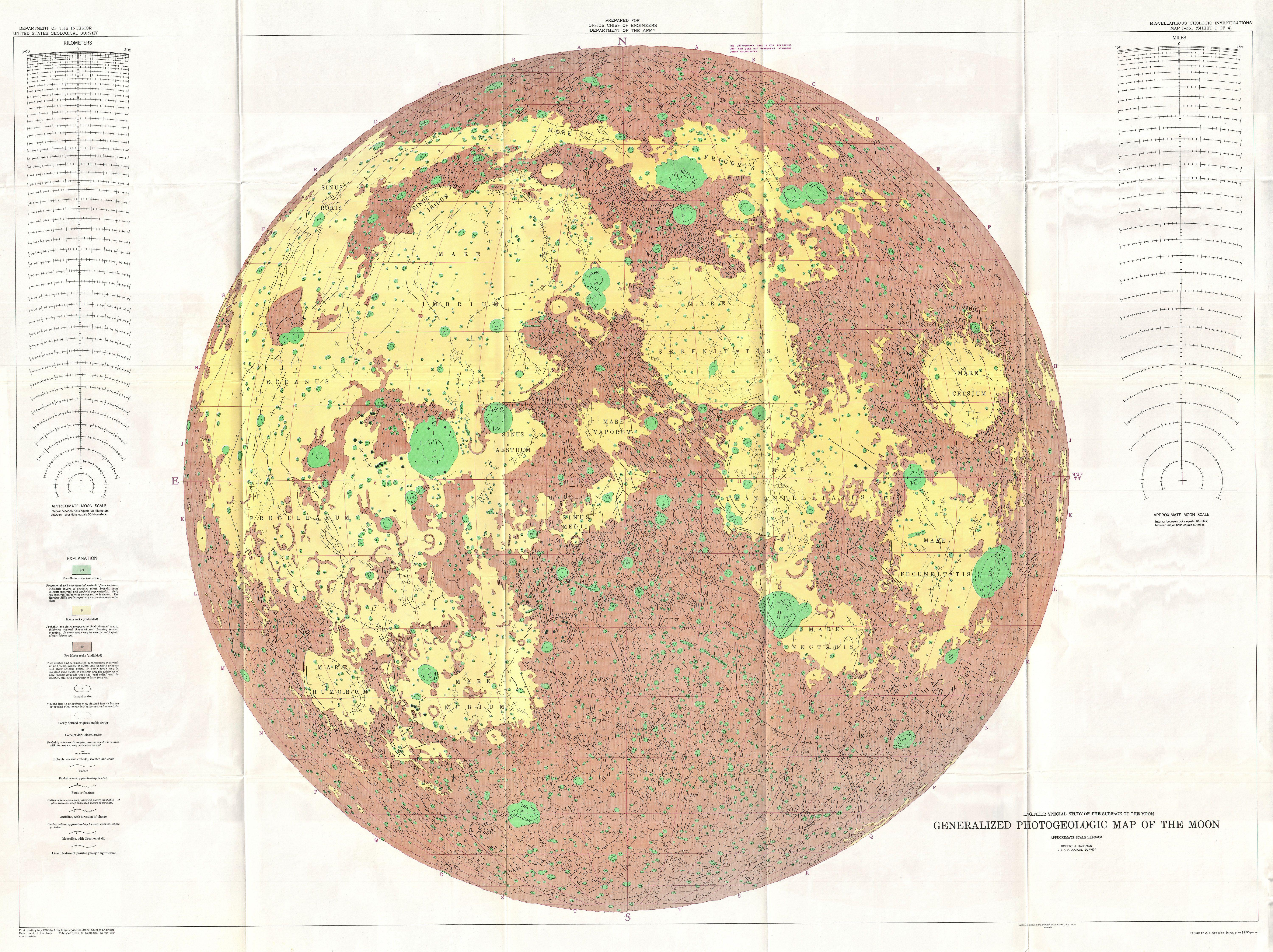 A 1961 landmark study of the Moon made by the U.S. Geological Survey in preparation for the Apollo 11 Lunar Landing Mission. Represents the near side of the Moon on a scale of 1:3,800,000. This spectacular monumentally proportioned map details the physical geography of the moon, noting craters, seas, mountains, and other formations. The work done in compiling this map led Hackman to develop the basis for all future planetary mapping and laid the foundations for photogeology. Author C. Clarke’s lunar explorers used this map for their “Journey by Earthlight” in 2001: A Space Odyssey . Originally prepared by the scientists Robert J. Hackman and Arnold C. Mason in 1960 based on photographs taken at Lick Observatory, San Jose, California. This is the second edition issued in 1961.